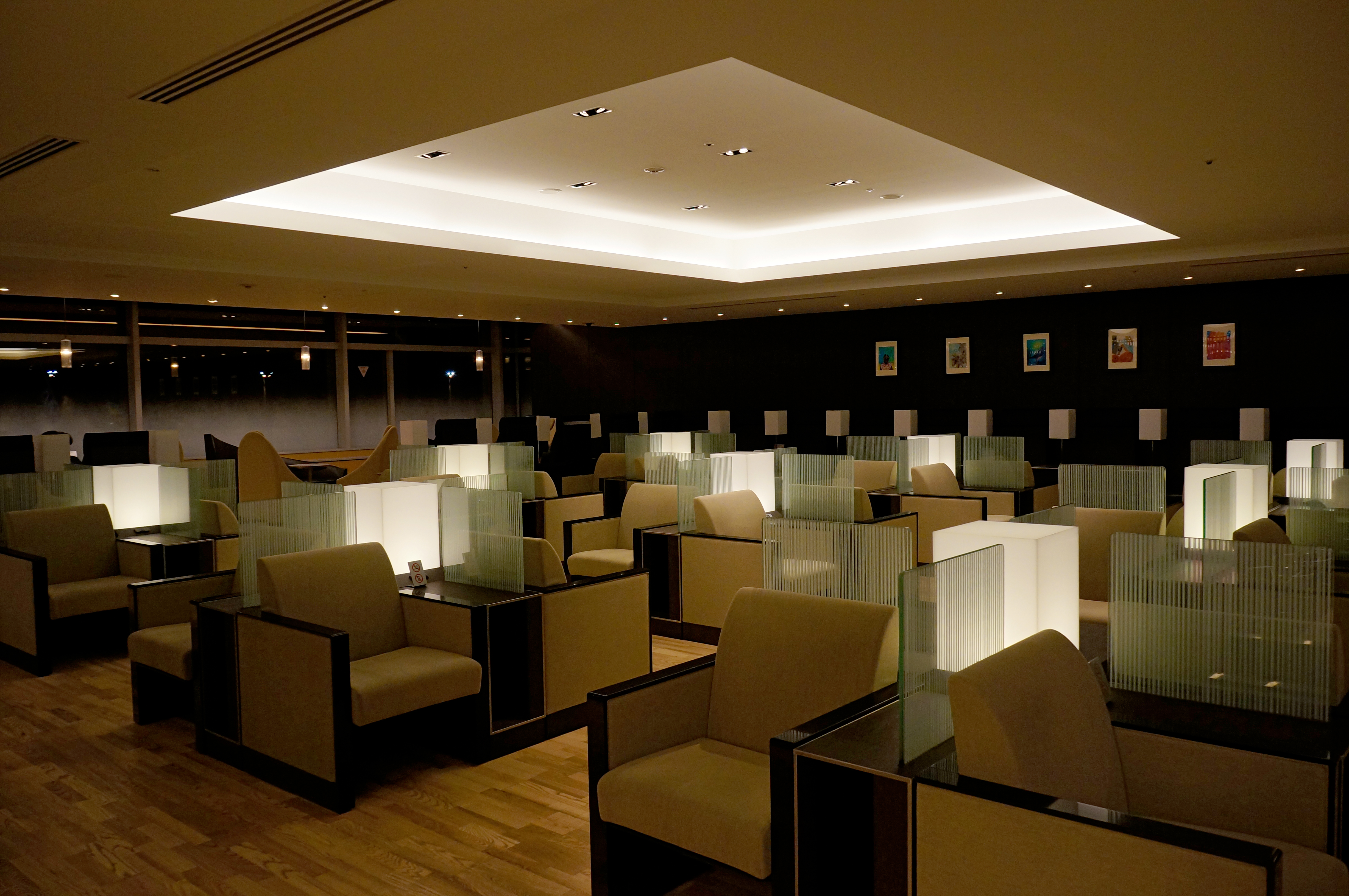 ANA Lounge of Tokyo International Airport (Domestic) in Tokyo, Japan